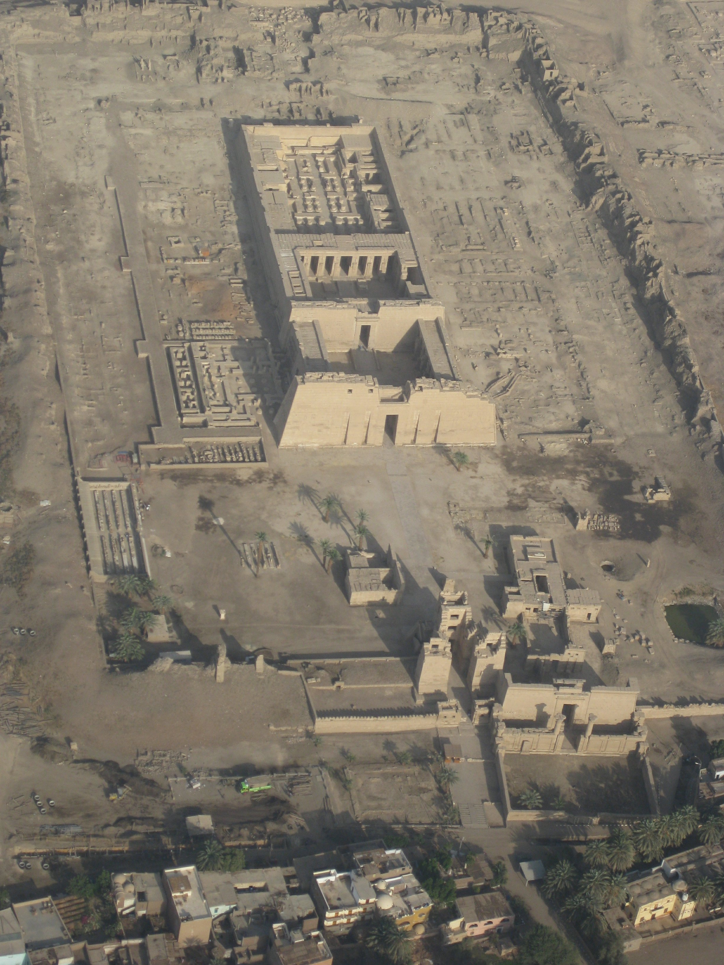 Temple of Rameses III - Medinet Habu